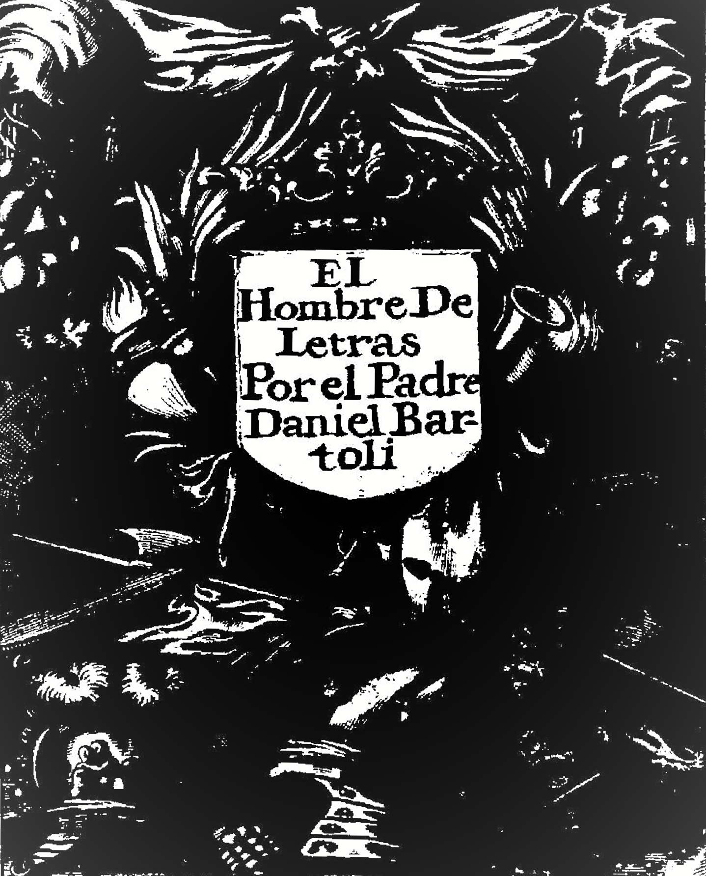 Spanish translation of Daniello Bartoli L'huomo di lettere (1645) Madrid 1678: Andres Garcia de la Iglesia printer